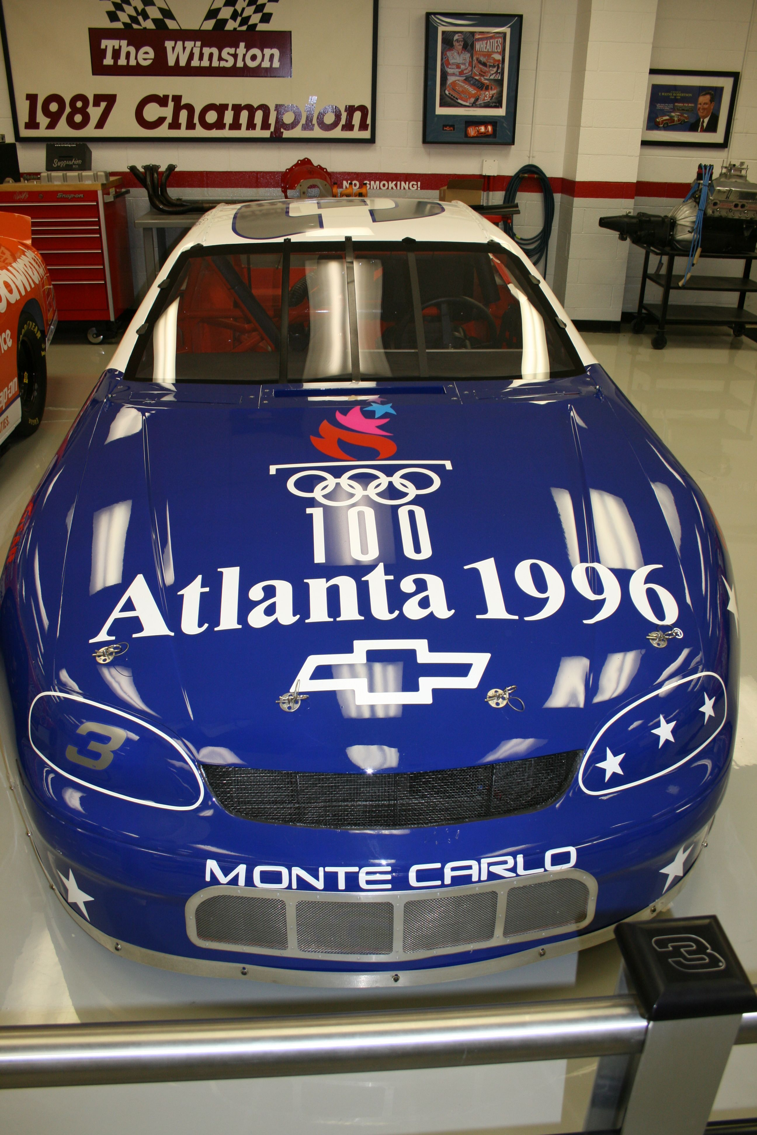 Dale Earnhardt Atlanta 1996 Olympics Car